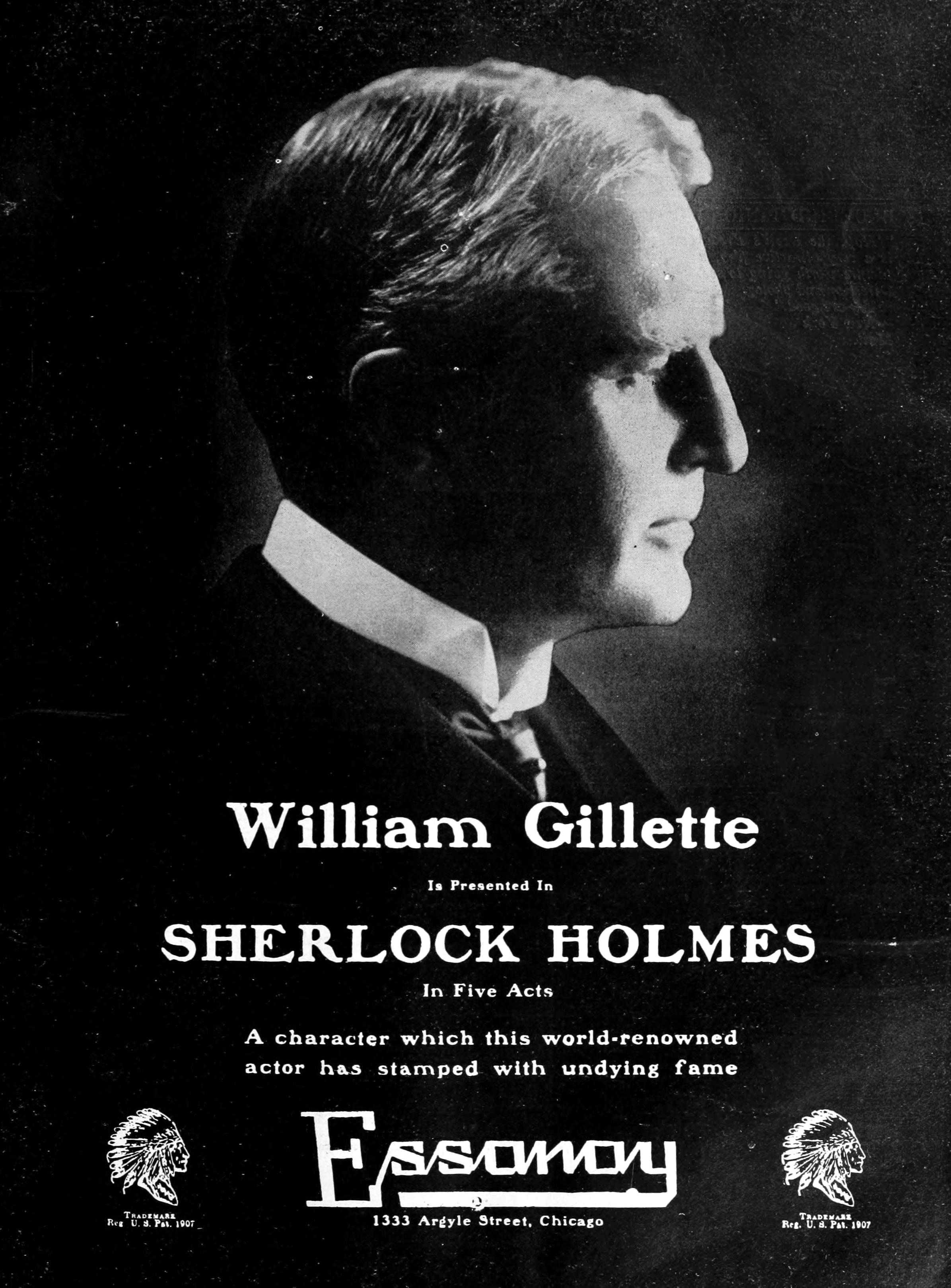 Advertisement for William Gillette playing Sherlock Holmes in Essanay films, 1916